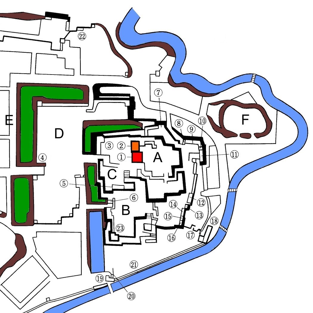 Layout of Kumamoto Castle